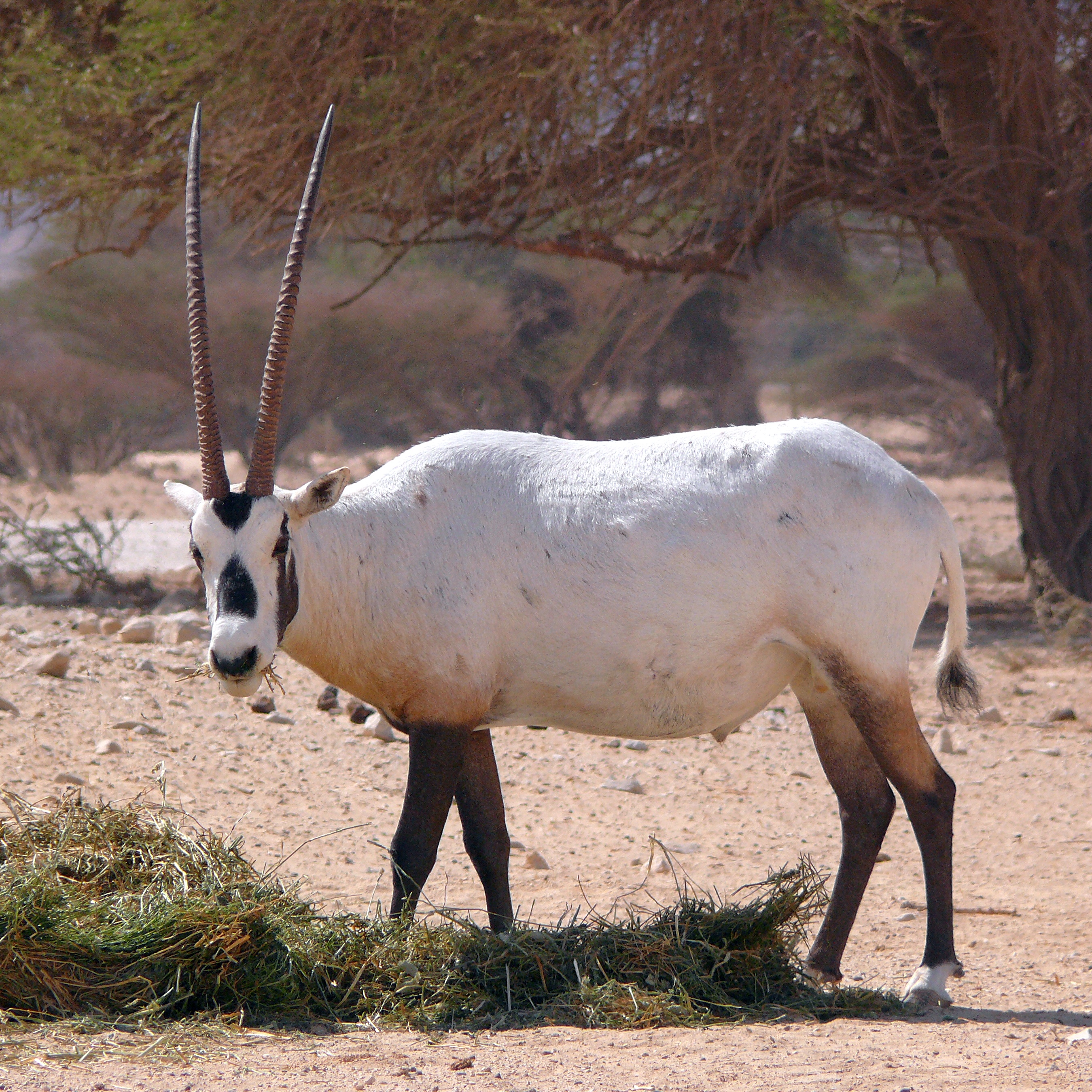 Oryx leucoryx, Chay Bar Yotvata, Israel